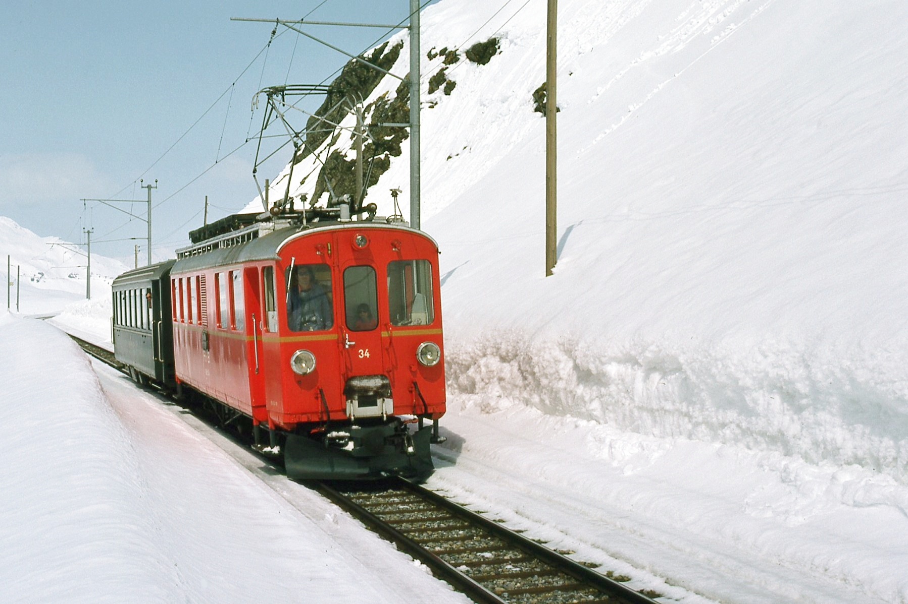 RhB ABe 4/4 I Nr. 34 (rebuilt) on the Bernina line in the snow